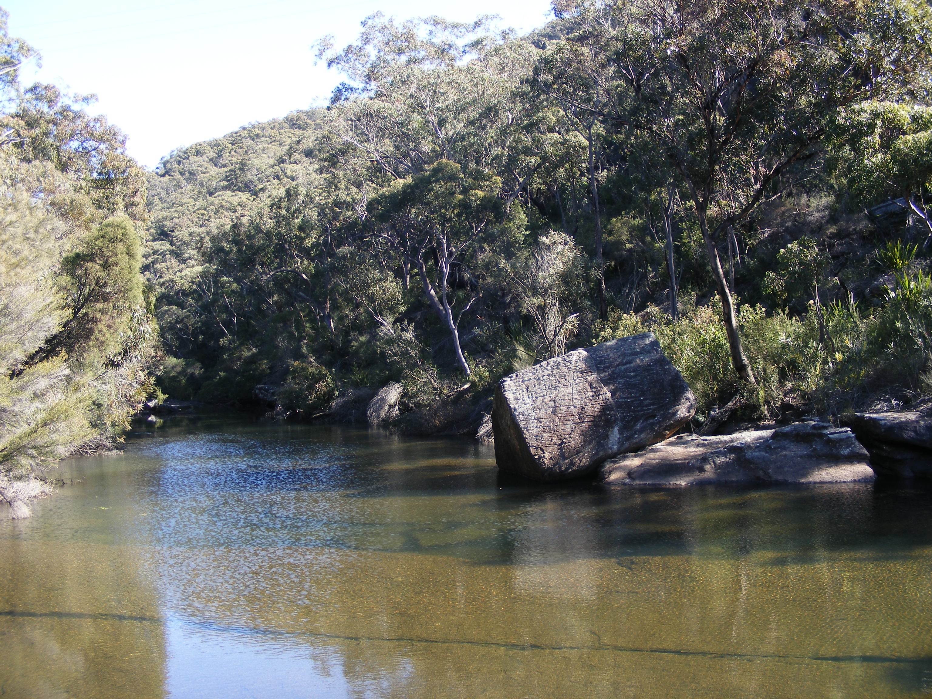 Heathcote Creek, Heathcote National Park, Sydney Australia